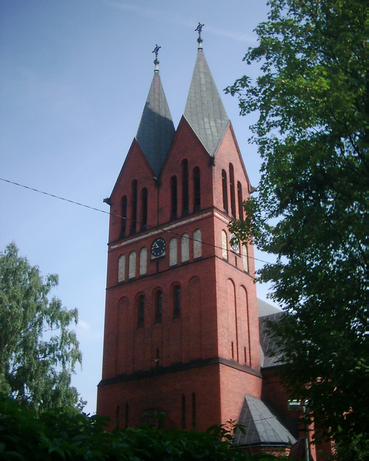 Tower of St Andrzej Bobola church in Świecie, Poland